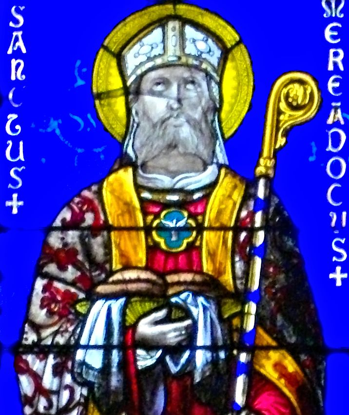 Detail of File:Vannes - cathédrale, vitrail des saints Patern et Mériadec.JPG Meiriadog